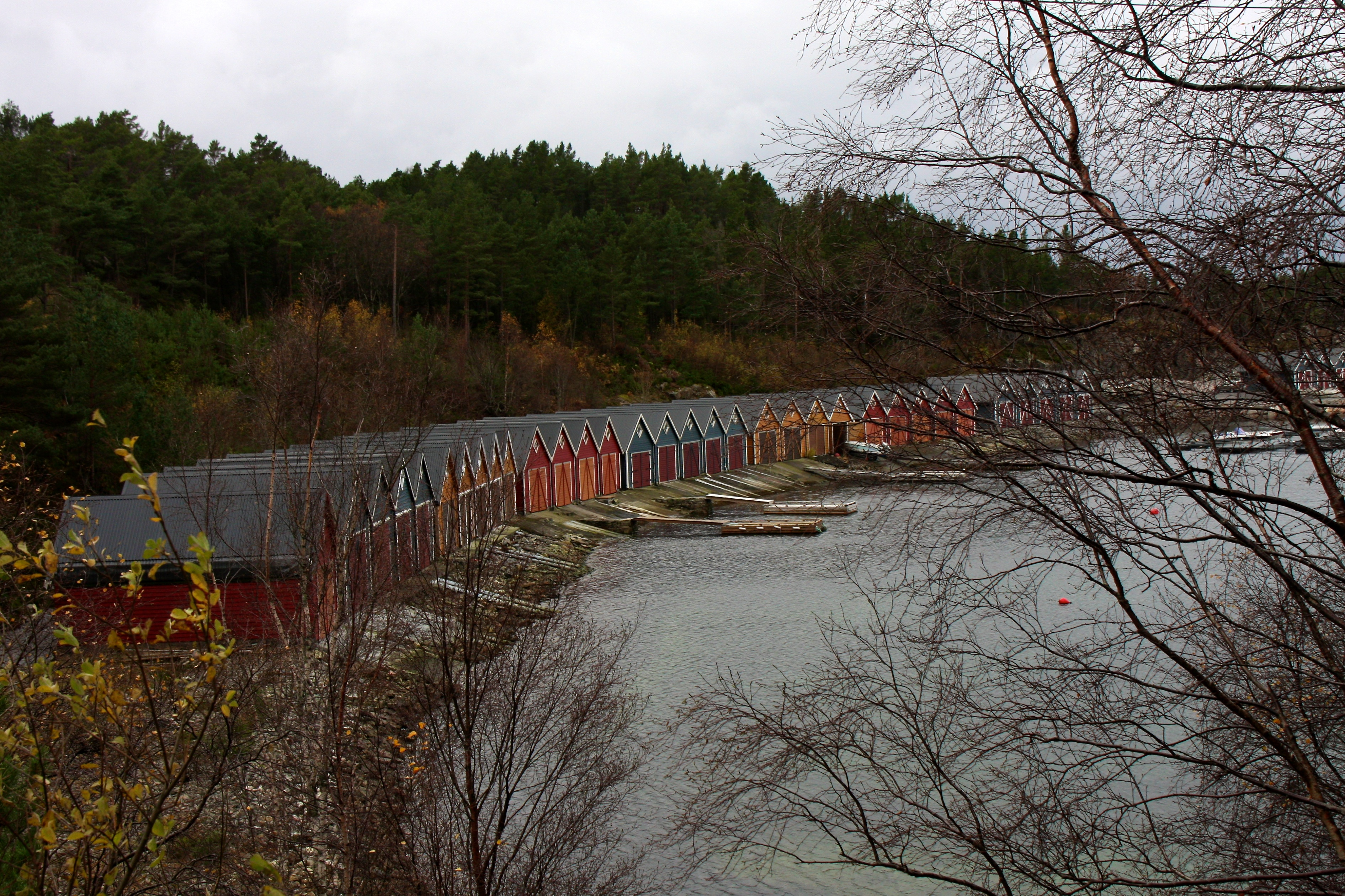 Fallebø in Gulen municipality, Norway.